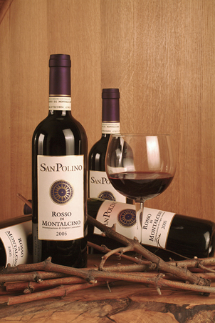 Organic Italian Wine from Tuscany